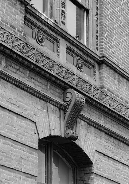 DETAIL OF TERRACOTTA DECORATION, SHOWING SCROLL CONSOLE, WAVE ORNAMENT, EGG-AND-DART, NYMPH HEADS AND FOLIATE PATTERN AROUND WINDOWS; City Hall, Atlantic City, New Jersey, USA